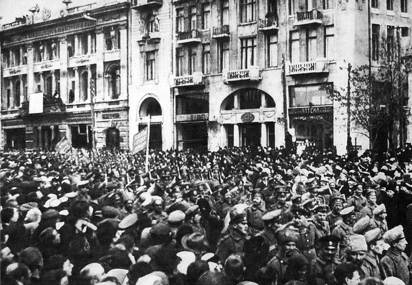 Demonstracion Febr. Revolution in Kharkov, Russian Empire, 03 march 1917.